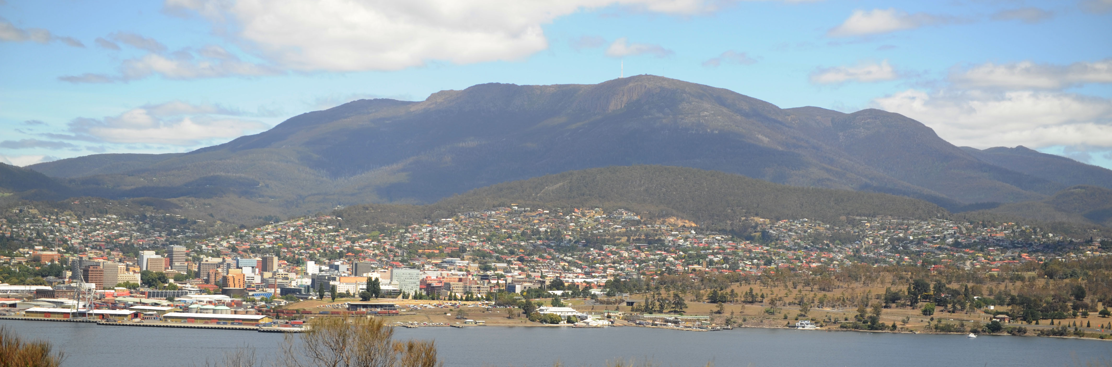 Mt Wellington, Hobart, Tasmania viewed from Rosny Hill on eastern shore of Derwent River